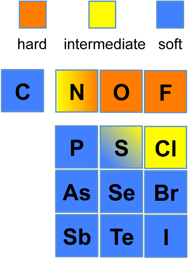 Periodic table showing hard and soft bases